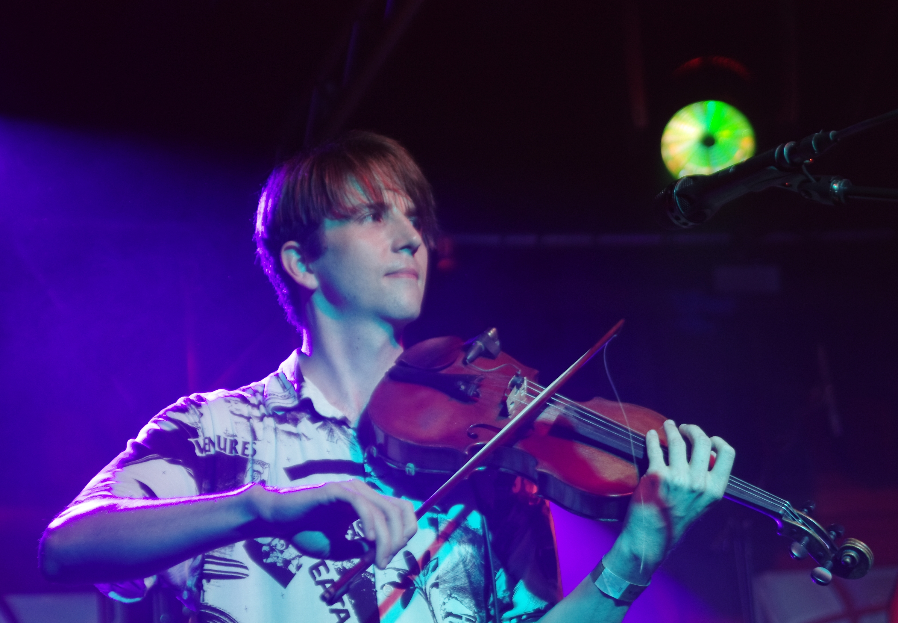 Owen Pallett at Haldern Pop 2013